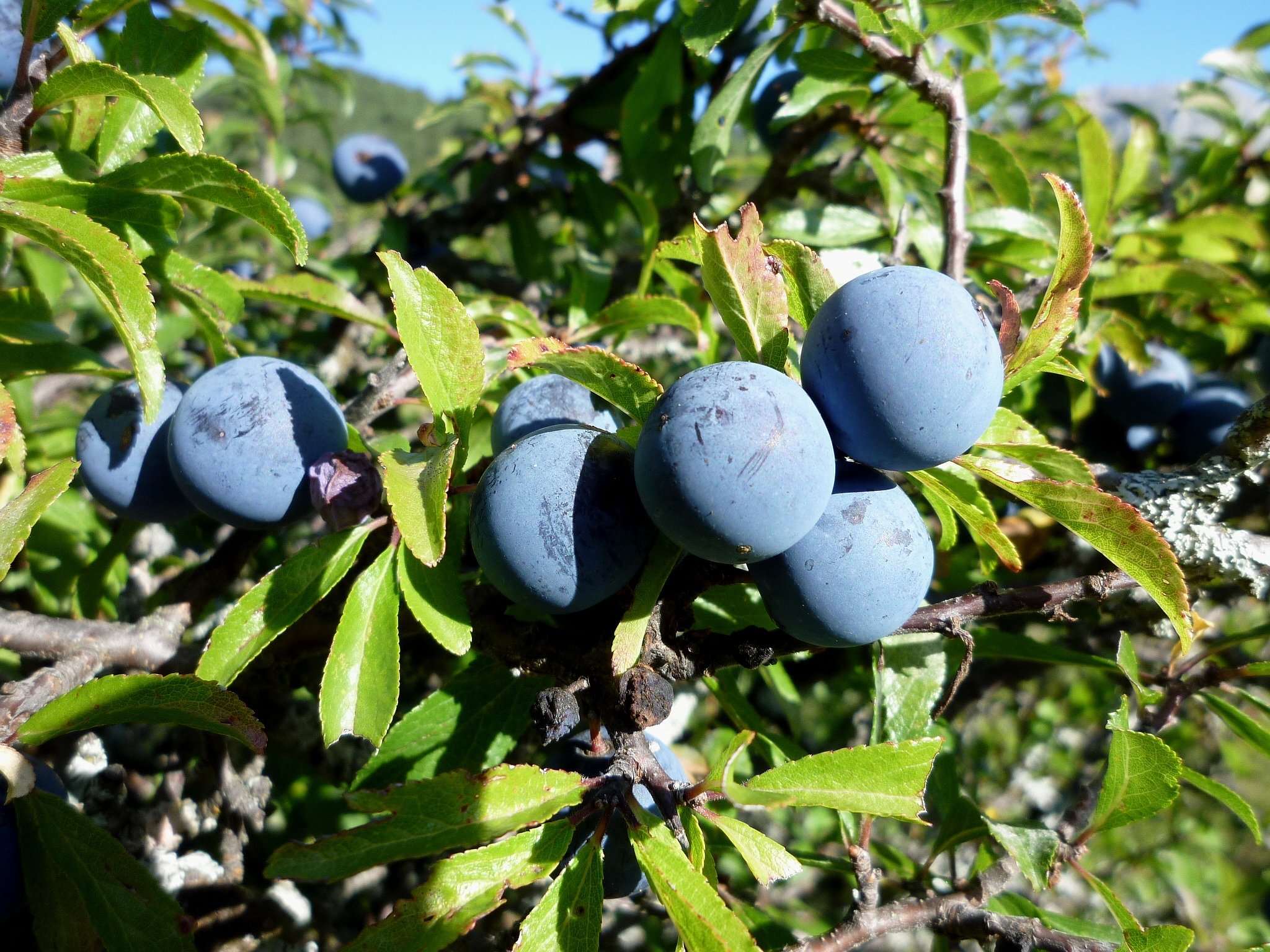 Prunus spinosa. In Serrat de la Matella of Gósol (Berguedà - Catalunya). To 1.500 m. altitude.